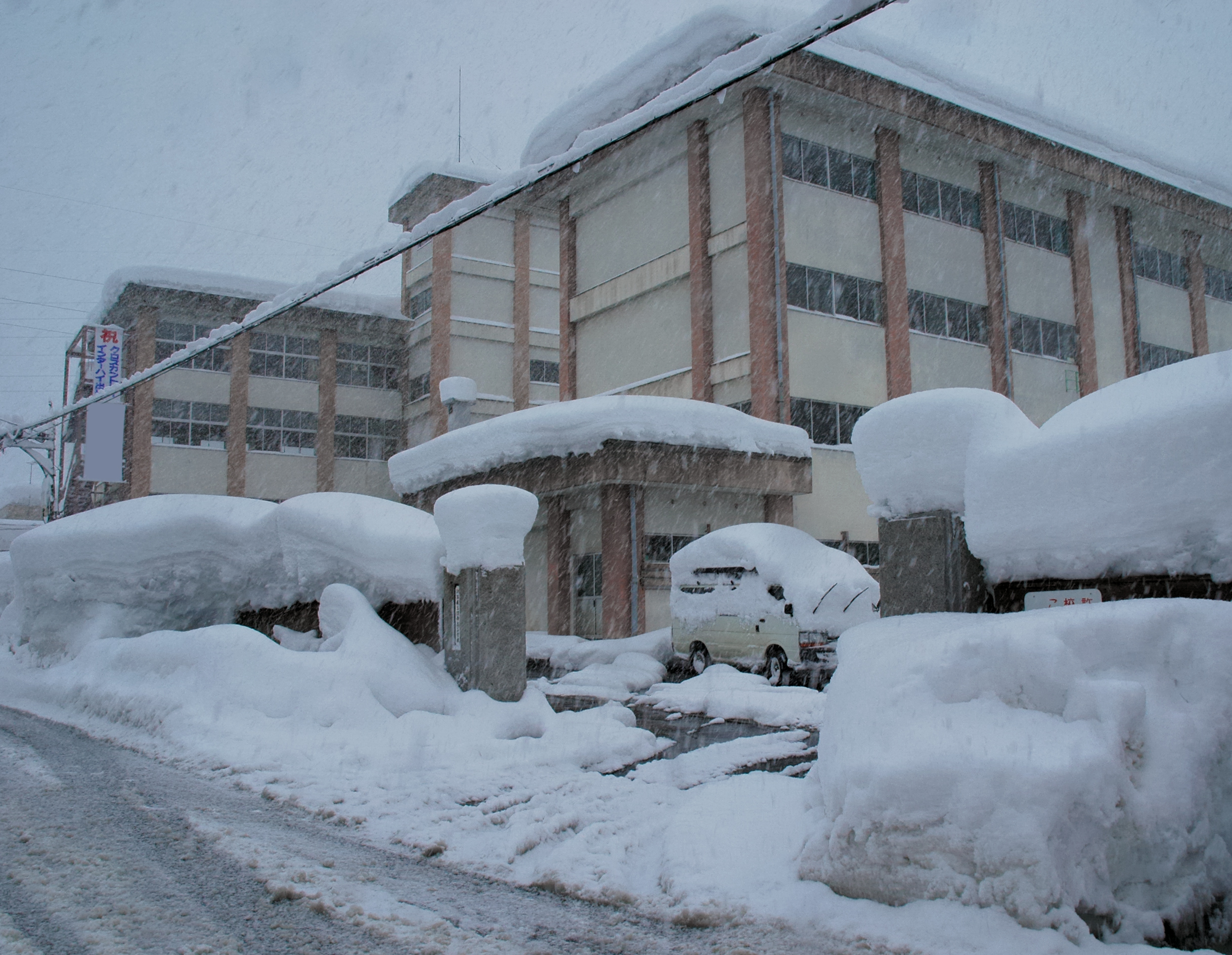 Tsunan High school in February 2006 (新潟県立津南高等学校)